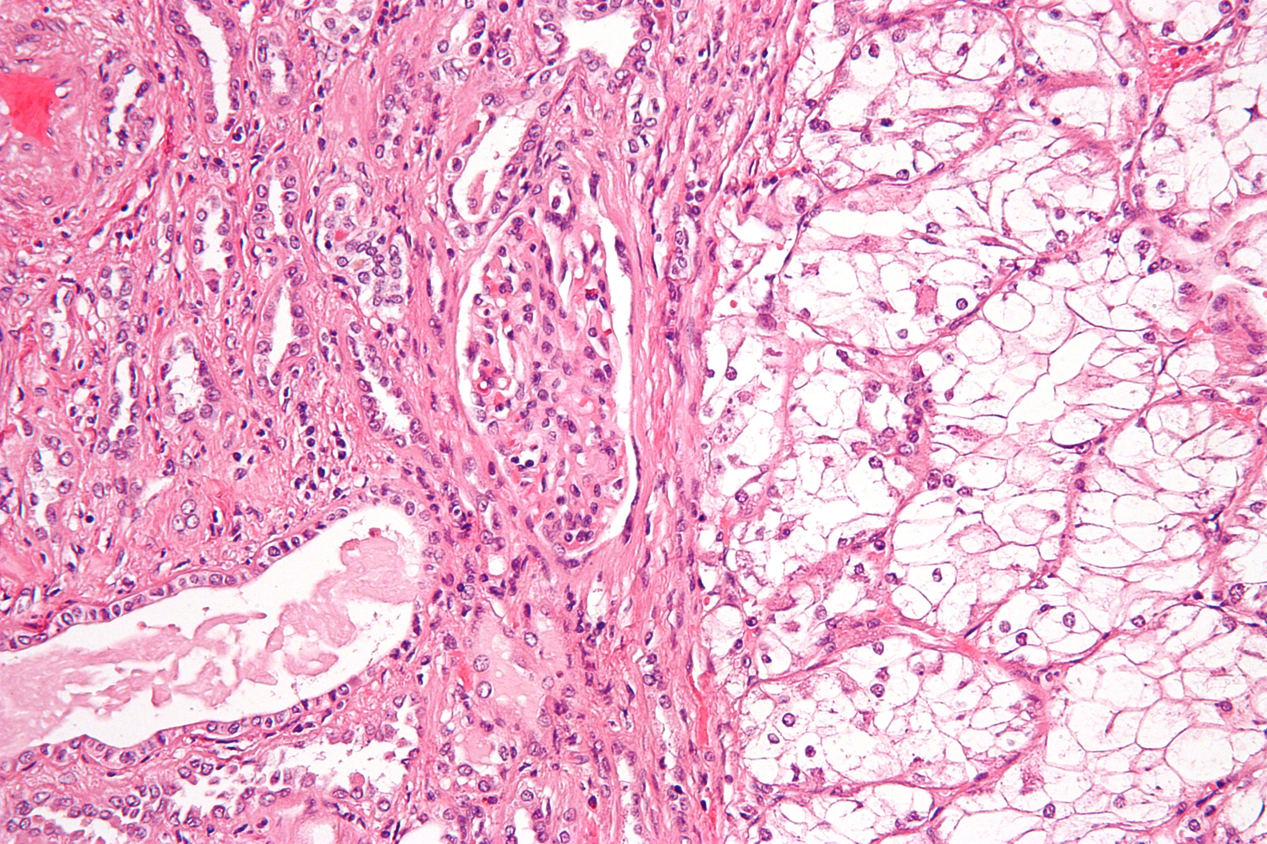 High magnification micrograph of a clear cell renal cell carcinoma. H&E stain. Features: Cells with clear cytoplasm, typically arranged in nests. Nuclear atypia is common. The case seen in the image has Fuhrman grade 2/4; the nuclear atypia is moderate and nucleoli could not be seen at 100 X. Related images High mag. (cropped) High mag. Intermed. mag.